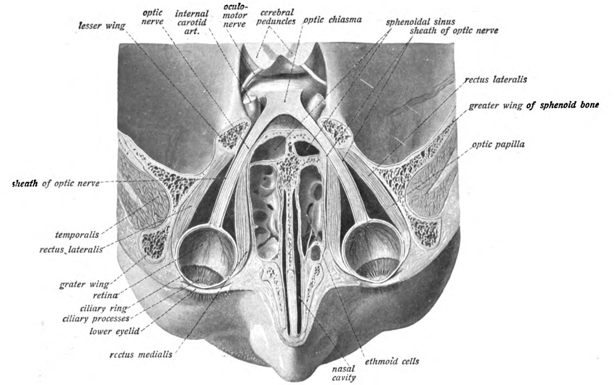 An anatomical illustration from the 1911 edition of Sobotta's Atlas and Text-book of Human Anatomy with English terminology.